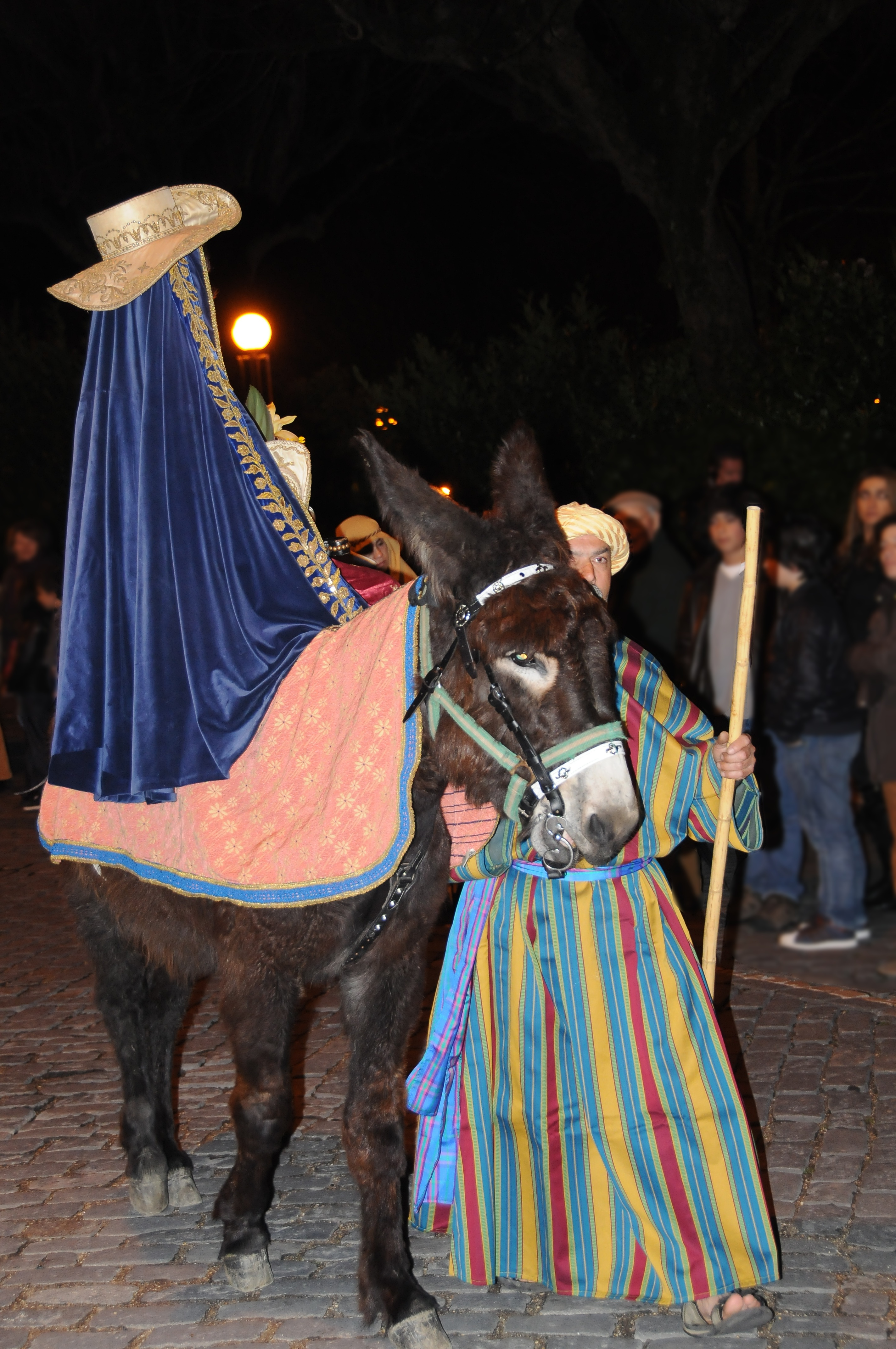 Procession "Vós Sereis o meu povo" ("You shall be my people") in the Holy Wednesday, in Braga, Portugal.